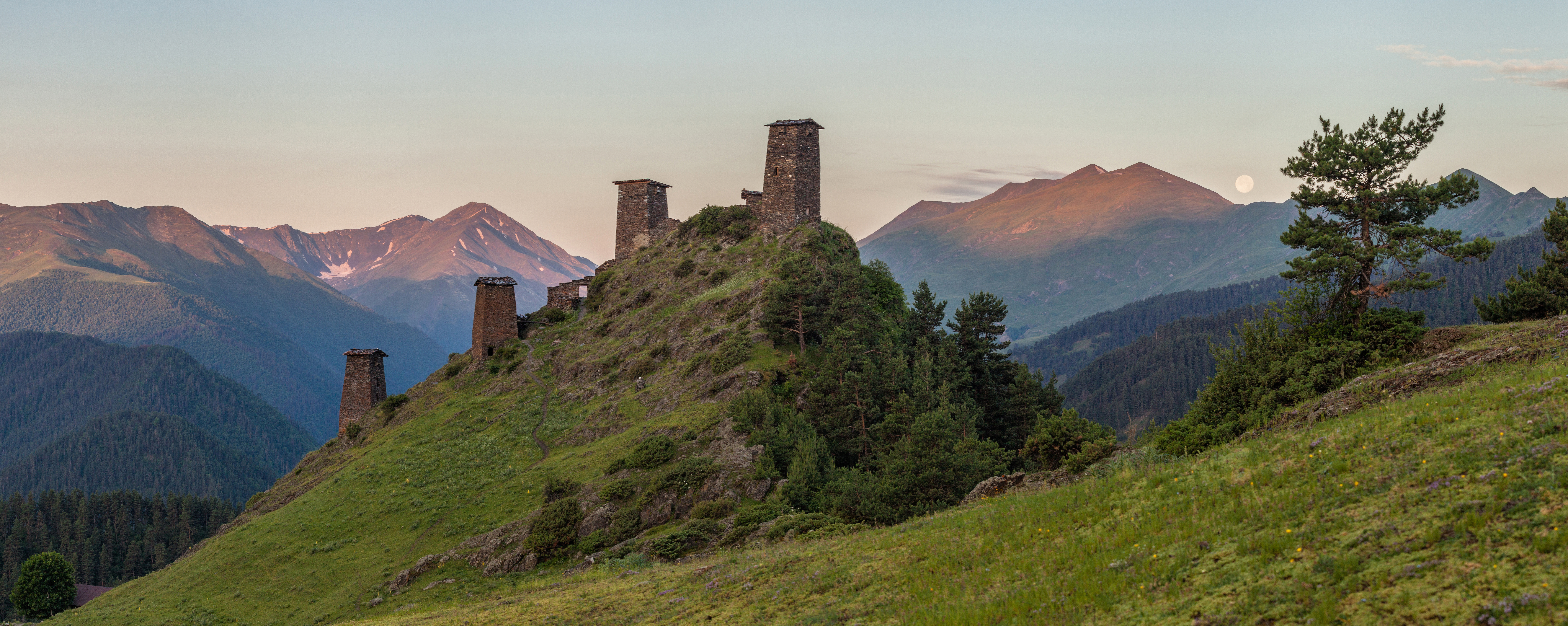 The Keselo Fortress, is a small medieval fortress just above the village of Omalo in Tusheti (historic geographic area in eastern Georgia). The site is surrounded by the northern slopes of the Greater Caucasus Mountains.